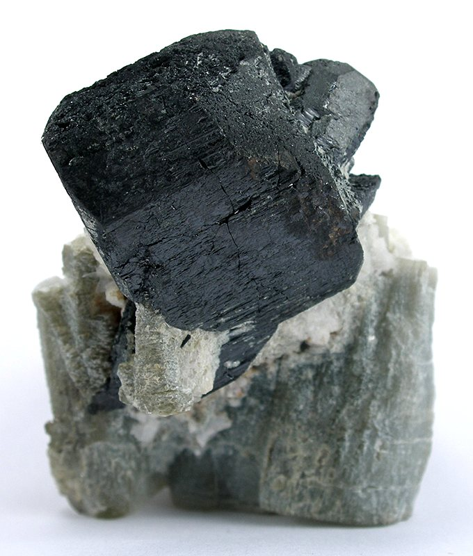 Manganocolumbite, Muscovite Locality: Elizabeth R. Mine, Chief Mountain, Pala District, San Diego County, California, USA (Locality at ) Size: miniature, 4.8 x 3.8 x 2.6 cm Manganocolumbite, Cleavelandite, Muscovite This is an extremely rare specimen, the best Chuck knows of, from one of the more interesting mines in San Diego County. It features a very equant, sharp, and surprisingly attractive crystal of the rare species Manganocolumbite perched aesthetically on matrix. Ex. Chuck Houser Collection.